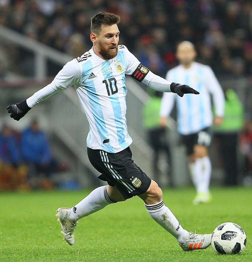 Lionel Messi